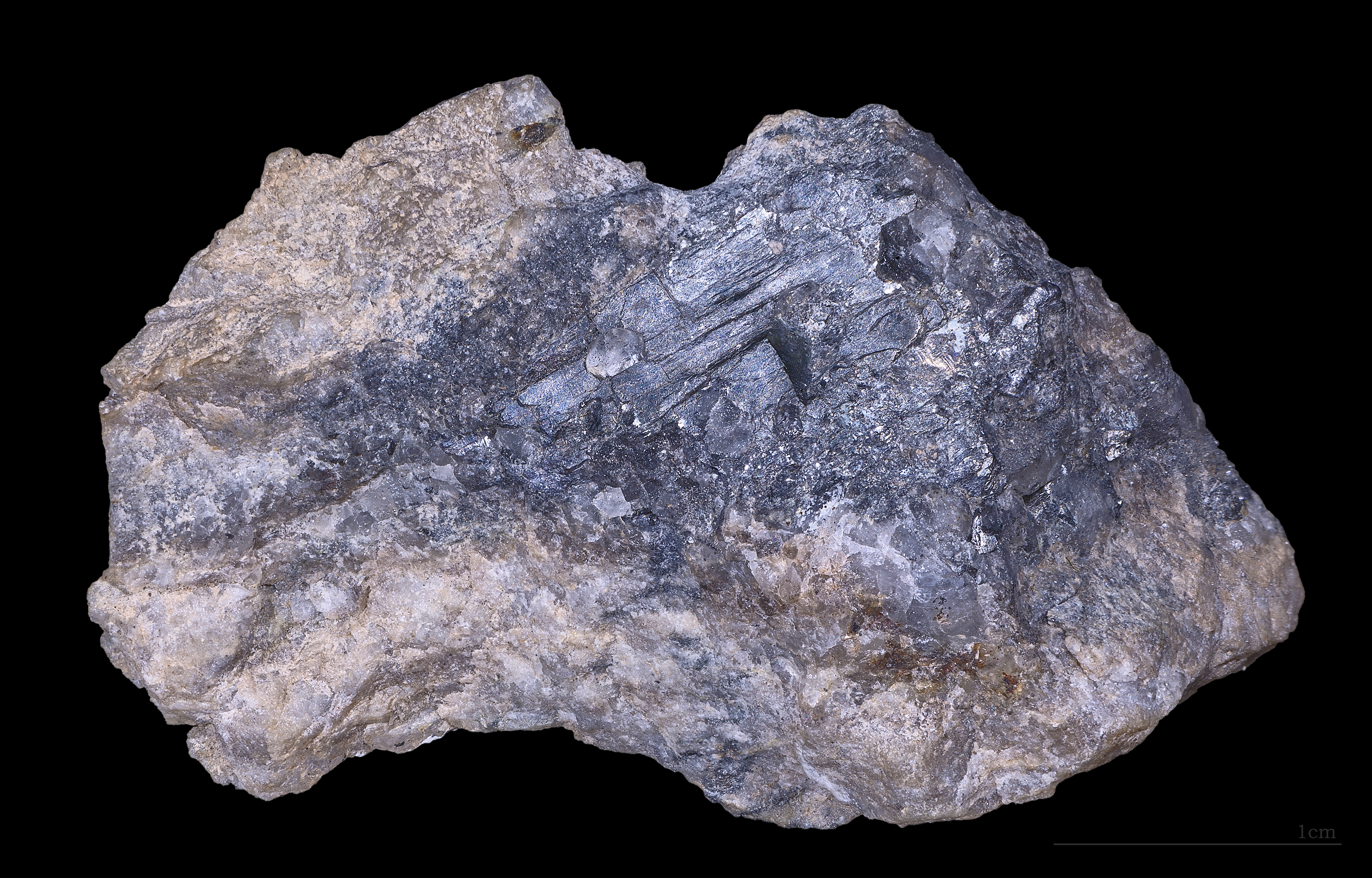 Tetradymite - Glacier Gulch, Smithers, Omenica Mining Division, British Columbia, Canada. Found in 1934 (45x26mm)